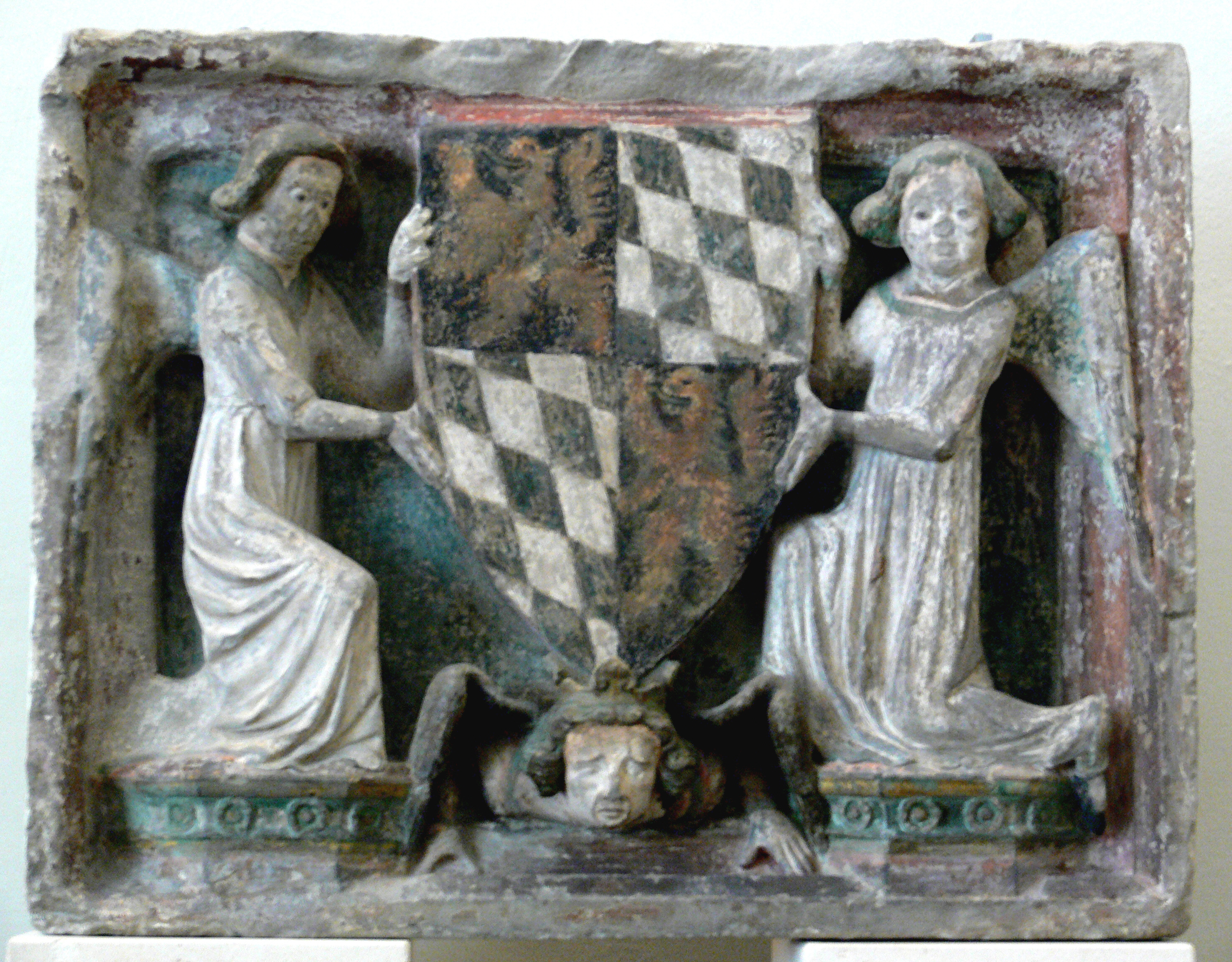 Relief of Coats of Arms, from the demolished St Laurence Chapel of the Munich Castle (today's „Alter Hof“); Sandstone; 1324 Bayerisches Nationalmuseum München